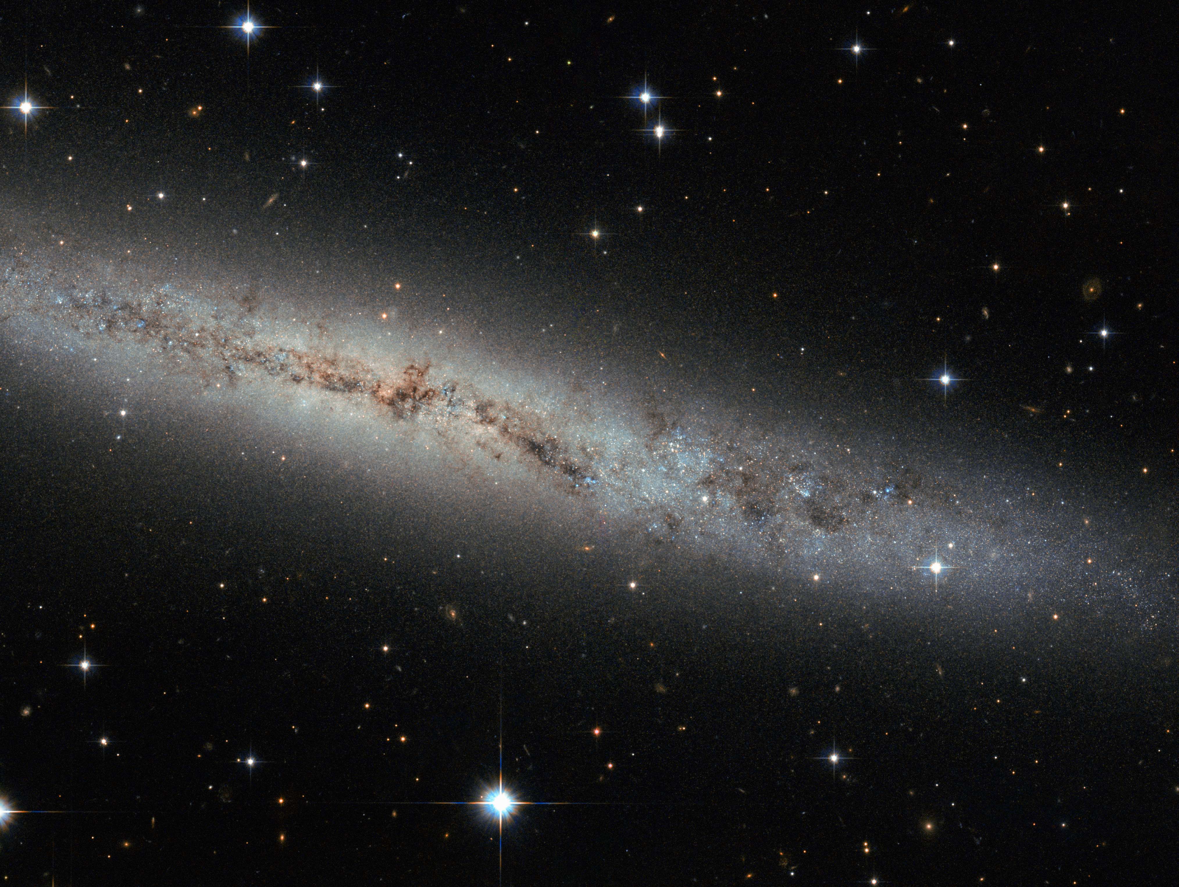 Located some 25 million light-years away, this new Hubble image shows spiral galaxy ESO 373-8. Together with at least seven of its galactic neighbours, this galaxy is a member of the NGC 2997 group. We see it side-on as a thin, glittering streak across the sky, with all its contents neatly aligned in the same plane. We see so many galaxies like this — flat, stretched-out pancakes — that our brains barely process their shape. But let us stop and ask: Why are galaxies stretched out and aligned like this? Try spinning around in your chair with your legs and arms out. Slowly pull your legs and arms inwards, and tuck them in against your body. Notice anything? You should have started spinning faster. This effect is due to conservation of angular momentum, and it’s true for galaxies, too. This galaxy began life as a humungous ball of slowly rotating gas. Collapsing in upon itself, it spun faster and faster until, like pizza dough spinning and stretching in the air, a disc started to form. Anything that bobbed up and down through this disc was pulled back in line with this motion, creating a streamlined shape. Angular momentum is always conserved — from a spinning galactic disc 25 million light-years away from us, to any astronomer, or astronomer-wannabe, spinning in his office chair.